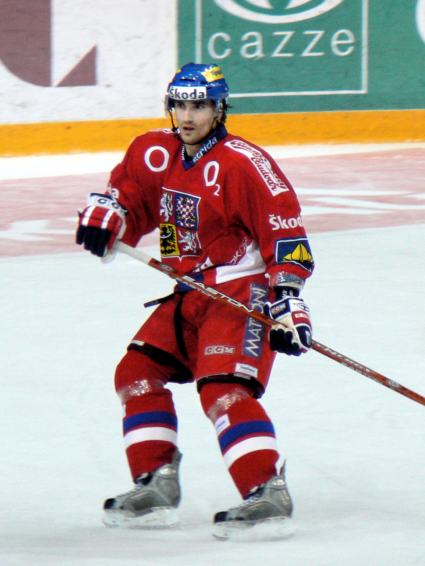 Czech ice hockey defenseman Marek Černošek playing for his national team in an LG Hockey Games / Euro Hockey Tour match against Team Finland in Tampere, Finland, February 2008.